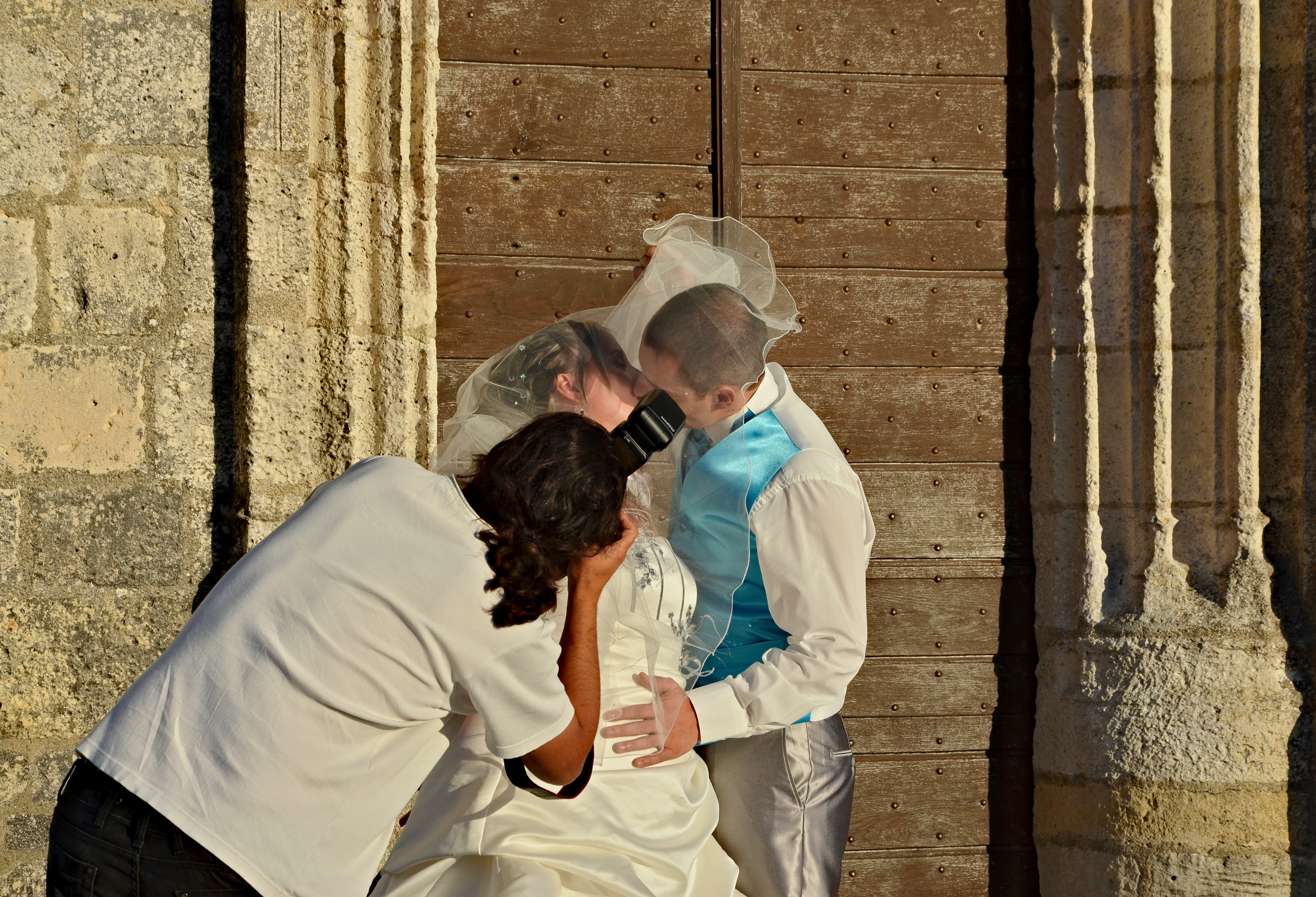 Newlyweds being photographed around golden hour, before the church of Talmont-sur-Gironde, Charente-Maritime, France.